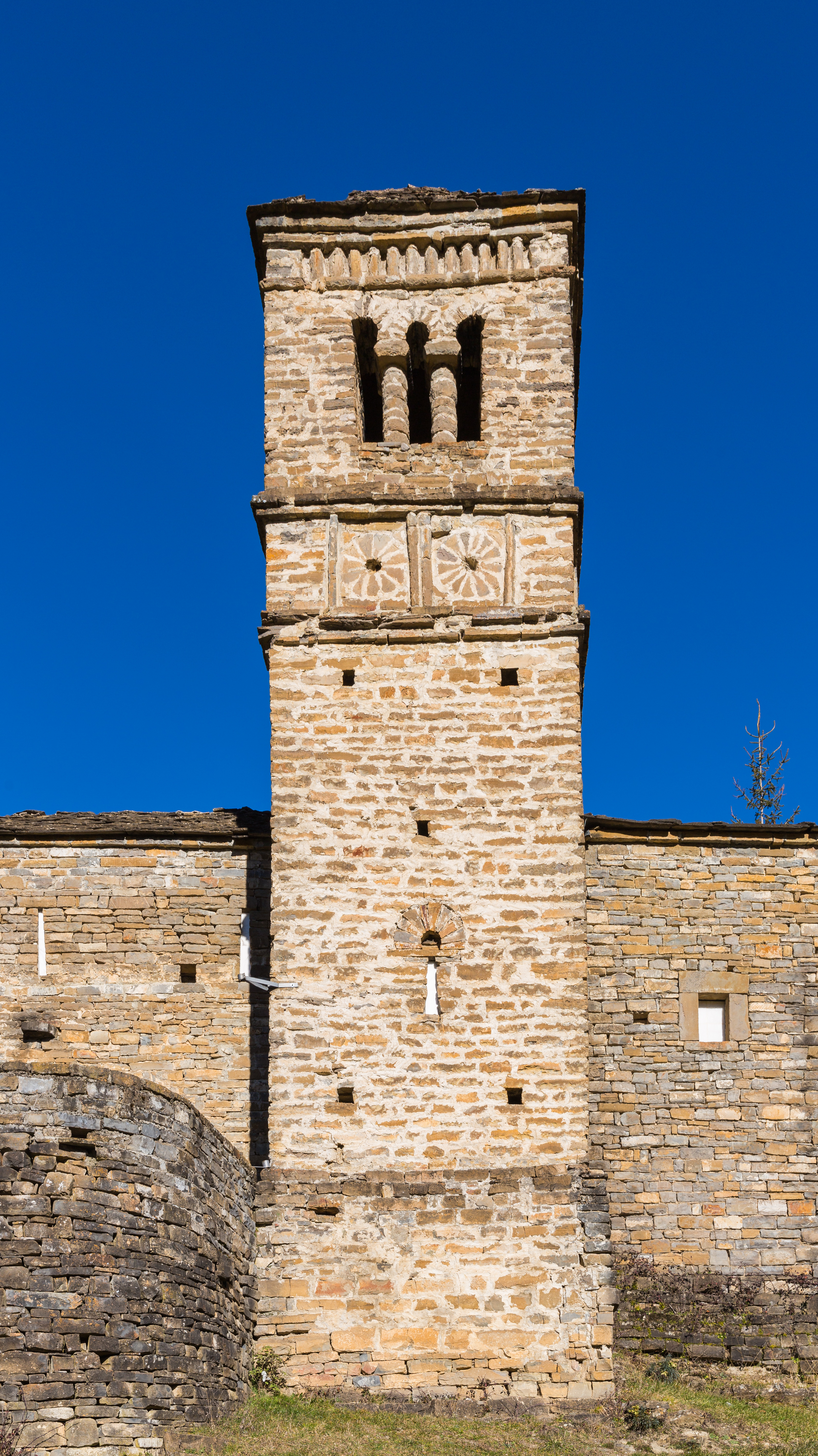 Church of St. Bartholomew, Gavín, Huesca, Spain